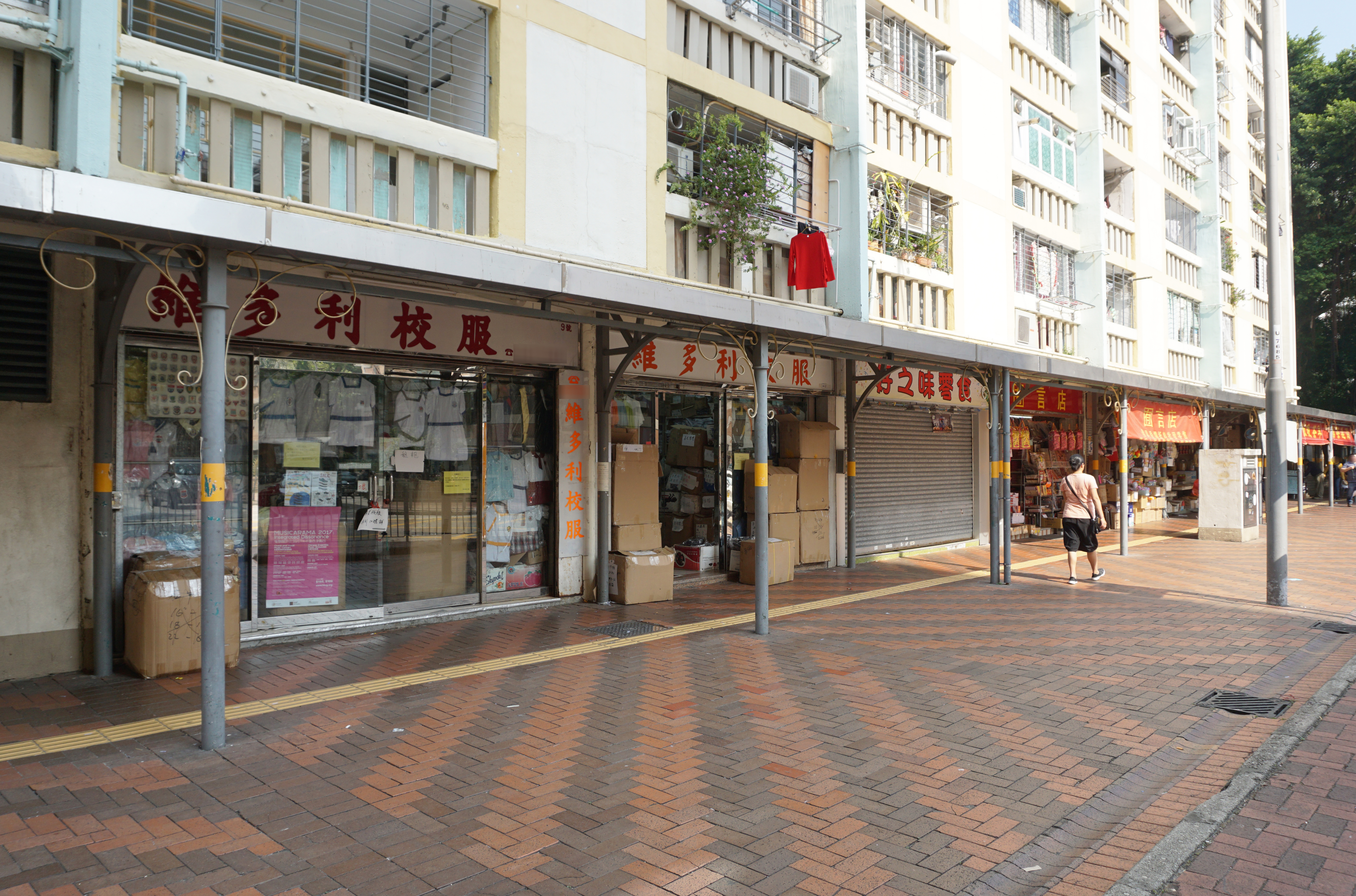 Fuk Loi Estate Wing Ka House in Tsuen Wan, Hong Kong.